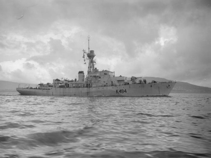 Canadian corvette HMCS ARNPRIOR underway, coastal waters